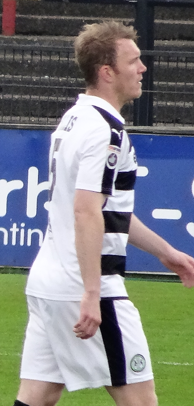 Mark Ellis playing for Forest Green Rovers against York City at Bootham Crescent, York on 29 April 2017